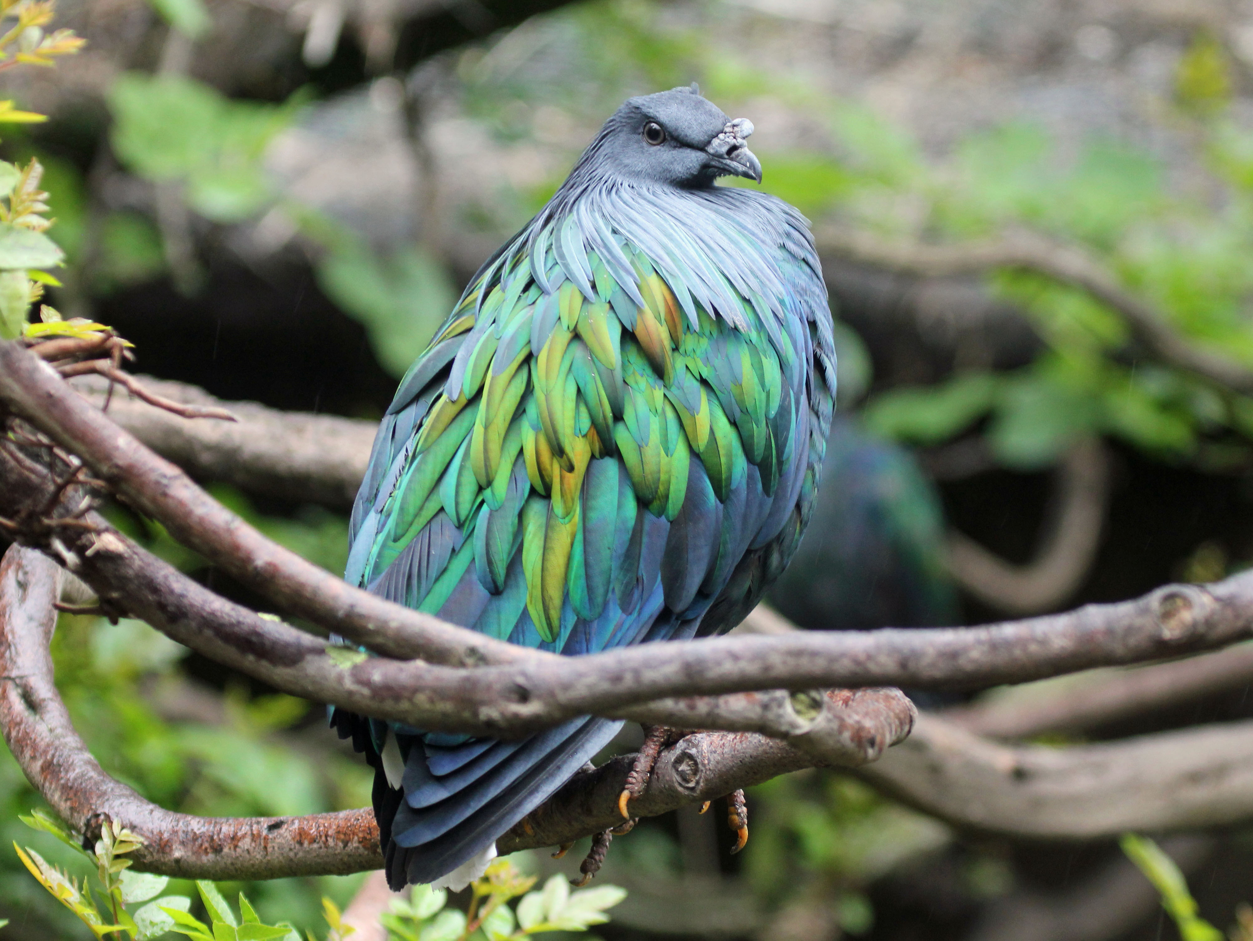 Nicobar Pigeon (Caloenas nicobarica) at World of Birds Wildlife Sanctuary (an aviary) in Cape Town, South Africa